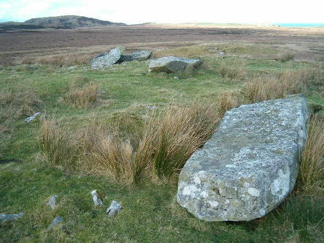 Cultoon stone circle.